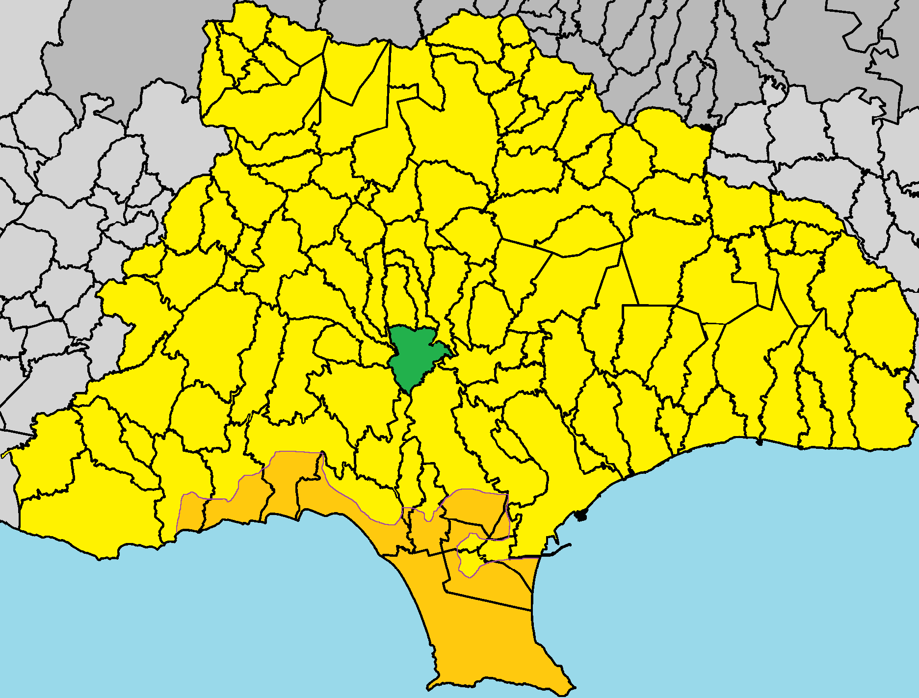 Alassa in Limassol District.